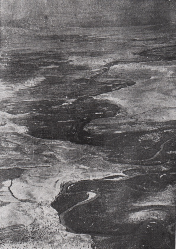 Aerial view of the Jordan Valley looking south